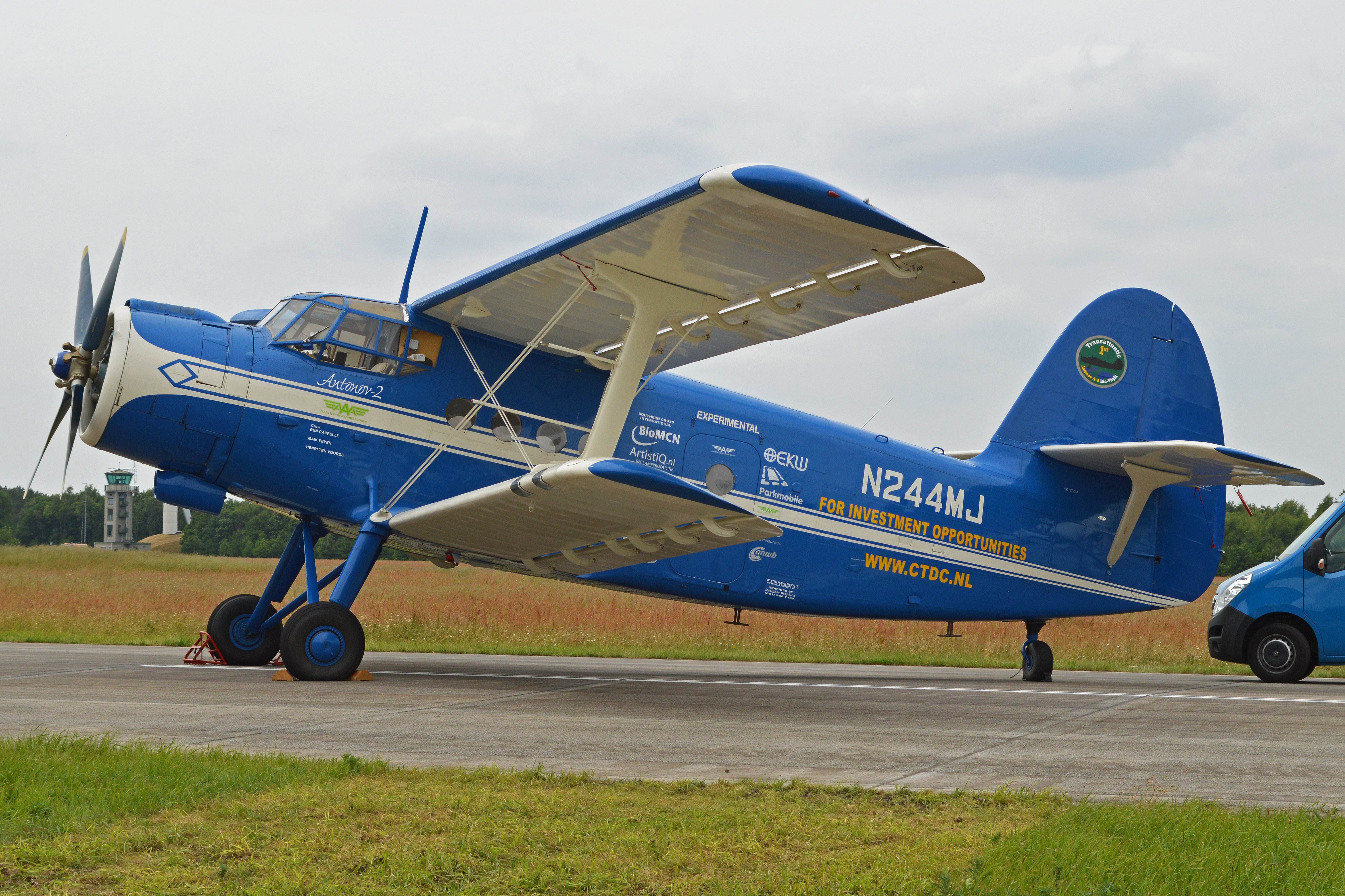 Built for Aeroflot, this An2 served with the Lithuanian Air Force as '12 blue' and later as '12 yellow'. Allocated civil reg LY-APF, it later became Amercian registered. c/n 1G172-44. On static display at the '100th Anniversary of Dutch military aviation' airshow. Volkel Air Base, Netherlands. 14-6-2013